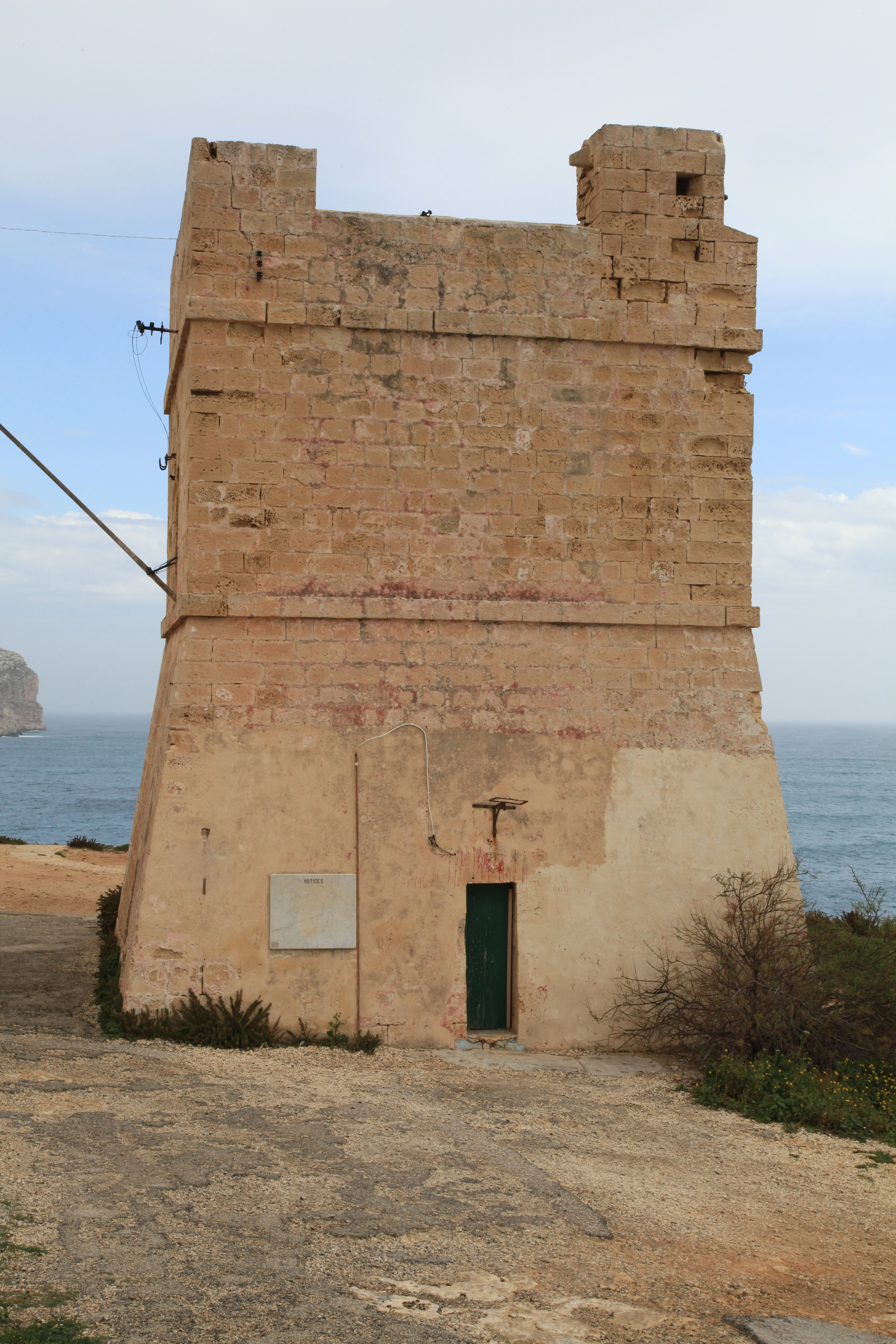 Torri ta' Xutu, Triq Congreve in Wied iz Żurrieq in Qrendi, Malta